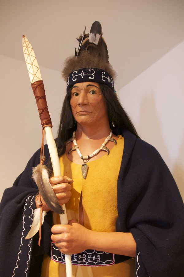 PLEASANT POINT, Maine -- 1-14-16 -- Frederick J. Moore II was the model for this mannequin, illustrating Passamaquoddy life in the 1500s. Johanna S. Billings|BDN